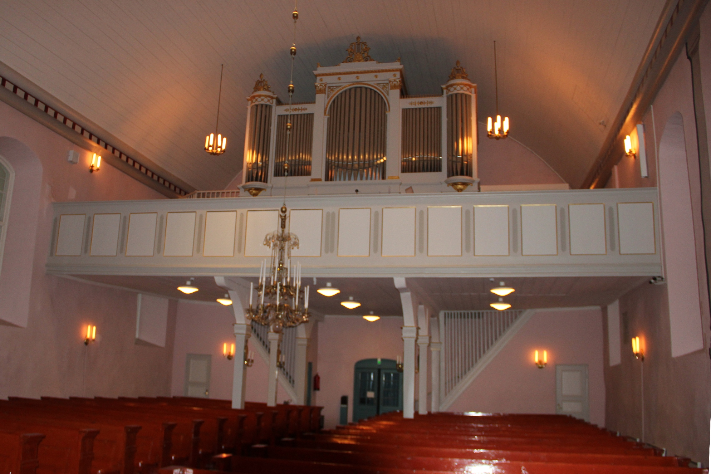 Originally from 1851 by Kangasala organ building company's Anders Thulé.